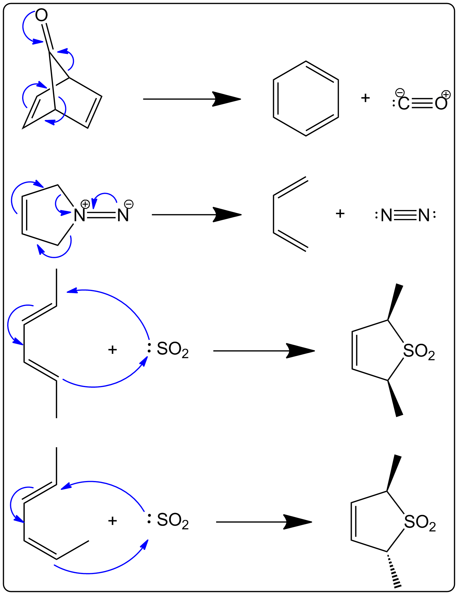 Arrow pushing picture for intro